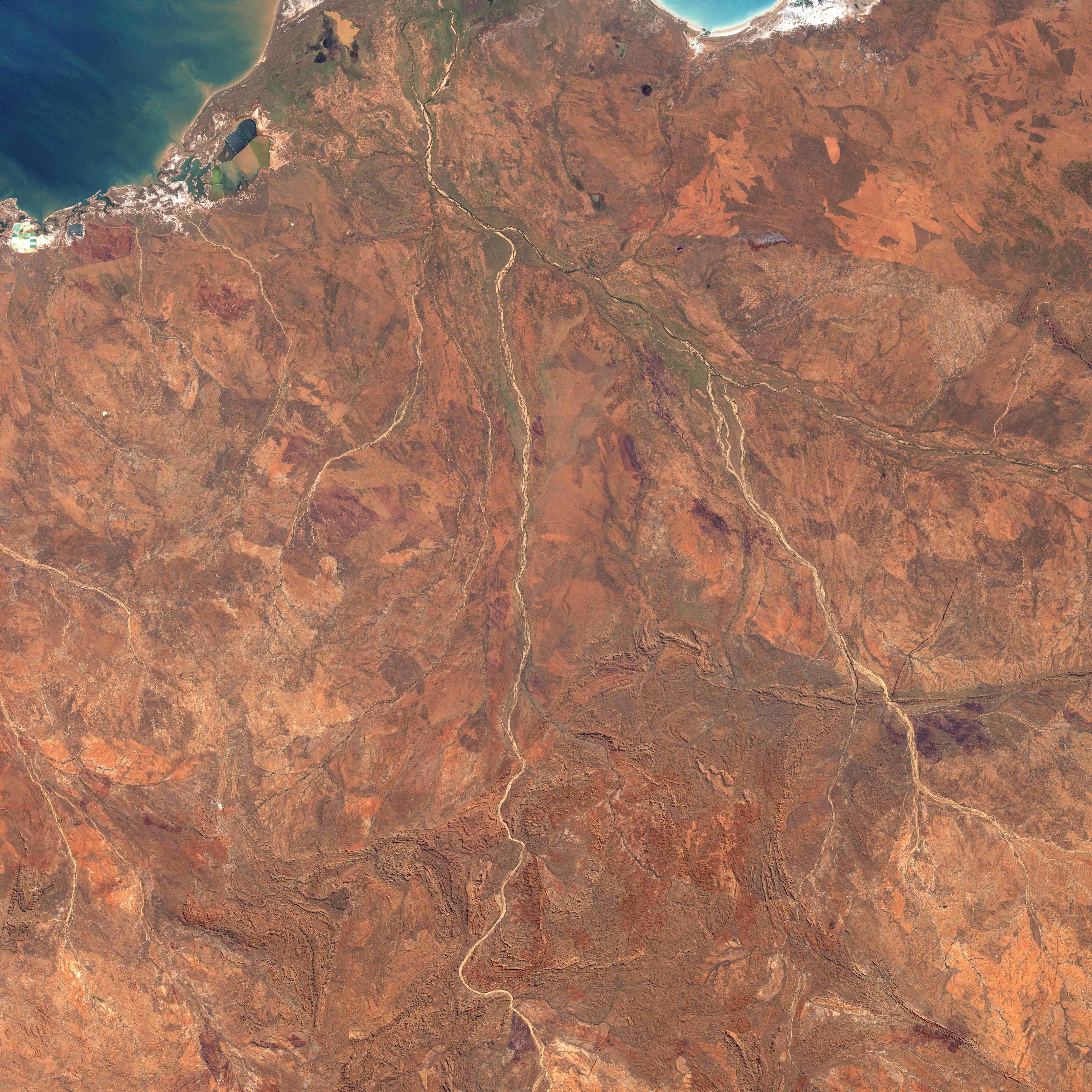 This picture is a composite of images acquired by the Landsat-7 satellite on May 19, 2000 (in the north), and June 23, 2001 (in the south). The Shaw River channel runs through the middle of the image. The Strelley Pool Chert rock formation appears near the bottom of the image, on the east side of the river.